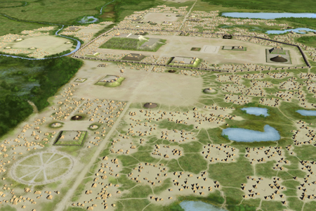 Artists conception of the Mississippian culture Cahokia Mounds Site in Illinois. The illustration shows the large Monks Mound at the center of the site with the Grand Plaza to its south. This central precinct is encircled by a palisade. Three other plazas surround Monks Mound to the west, north and east. To the west of the western plaza is the Woodhenge circle of cedar posts.